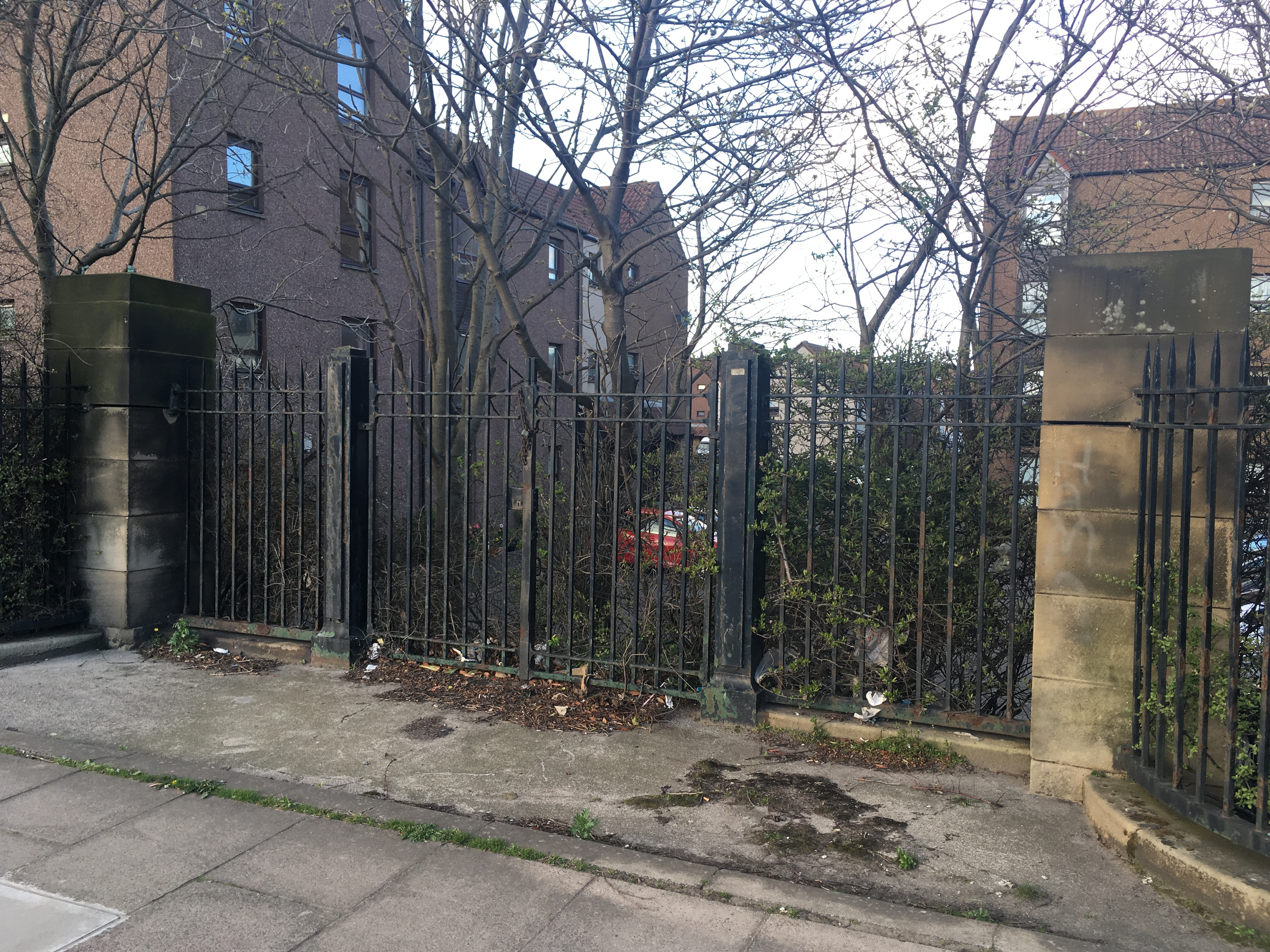 Original gate from site of Portobello Power Station